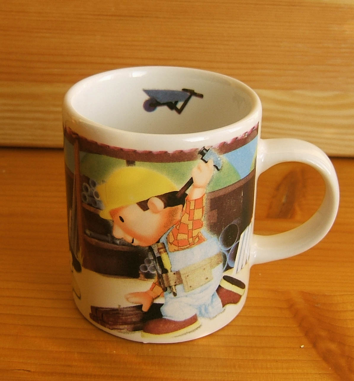 Bob the Builder mug.